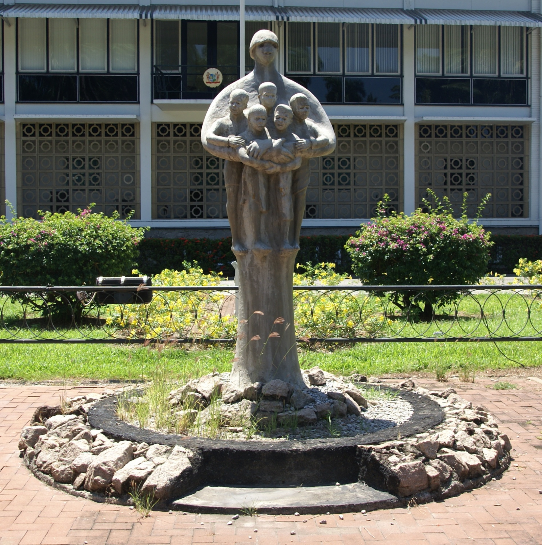 "Mama Sranan" (Mother of Surinam), Kleine Waterstraat, Paramaribo, Surinam. By Jozef Klas, 1965.